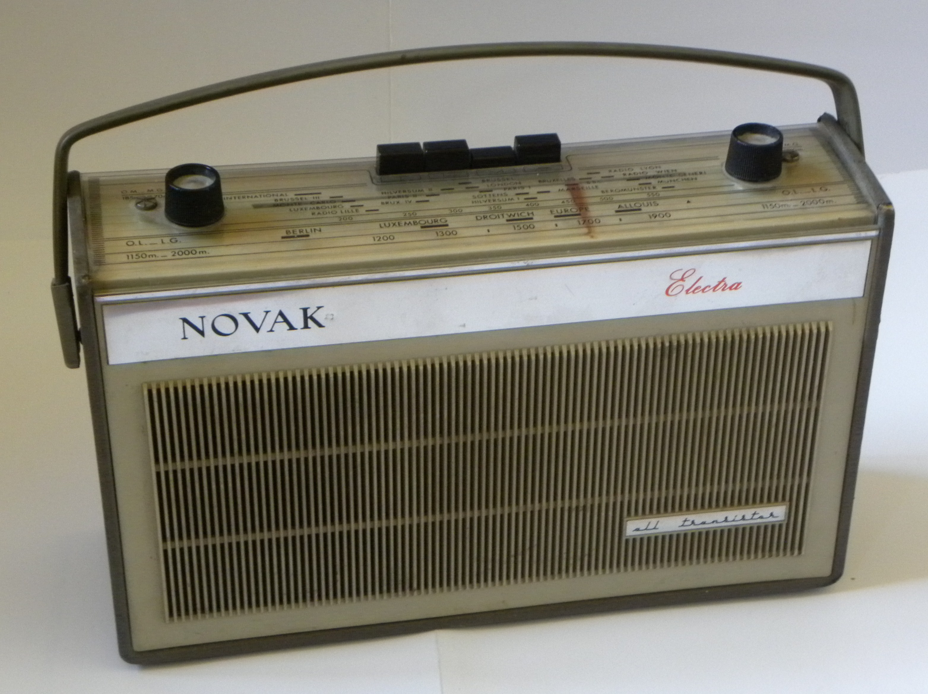 Vintage portable Transistor radio "NOVAK" electra built Brussels (Belgium) 1964. Four LR12 batteries 4x(4.5 Volts)